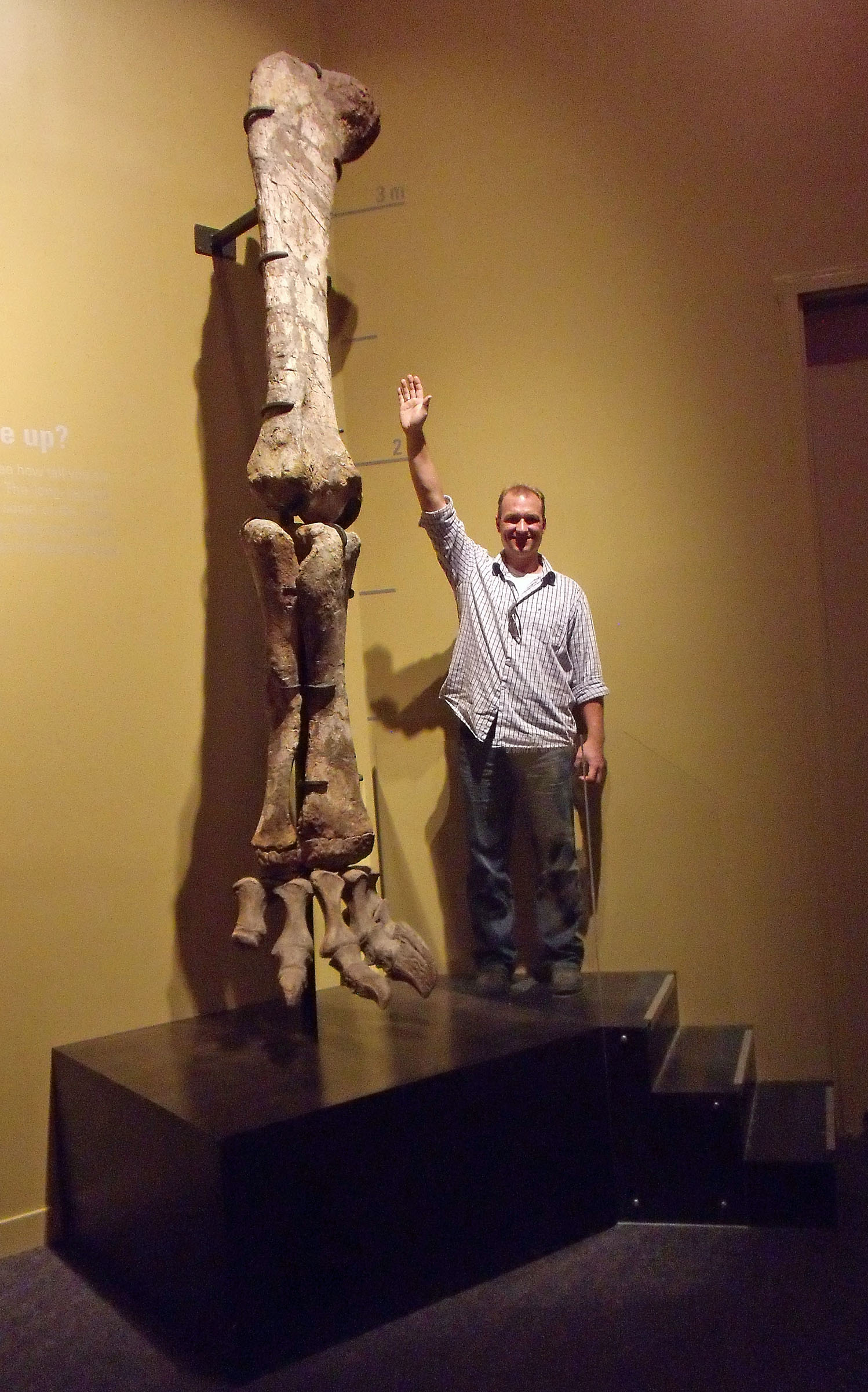 Thank you sir for putting things into perspective. If the rest of the wee beastie could be painted onto the wall, would it fit into the room? Royal Tyrrell Museum, Alberta, Canada